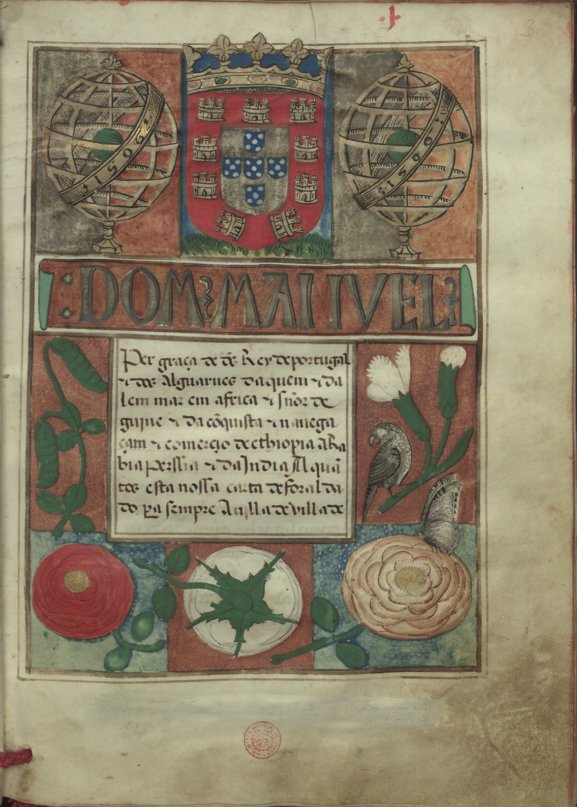 Town Charter of Vila do Conde, dated 10 September 1516.